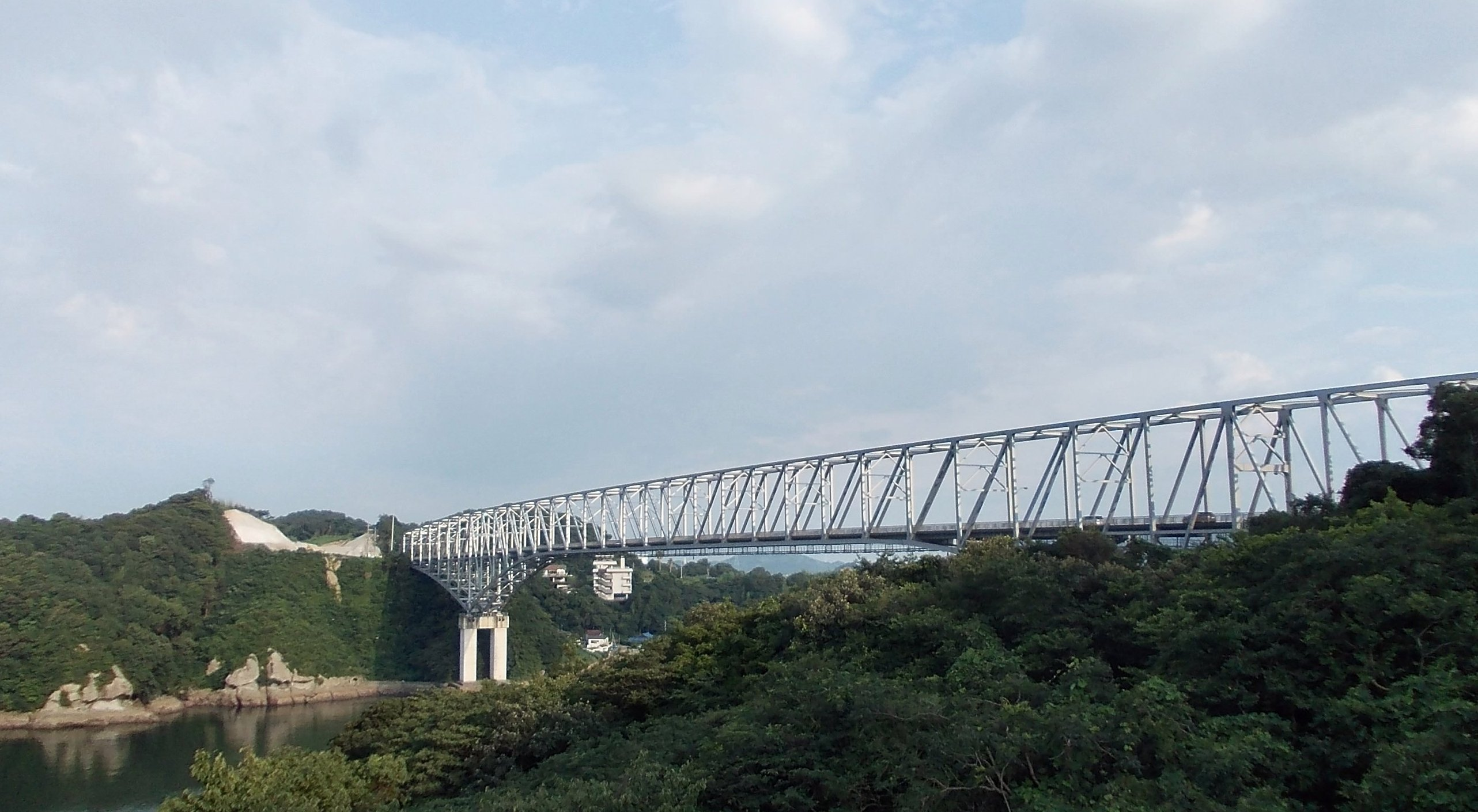 Tenmon Bridge connects Misumi, the tip of the Uto peninsula, Kumamoto Prefecture with Oyano-jima.